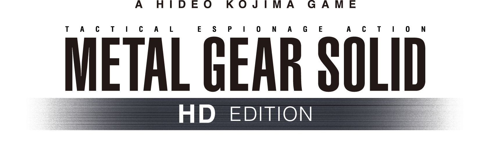 Metal Gear Solid HD Collection Logo